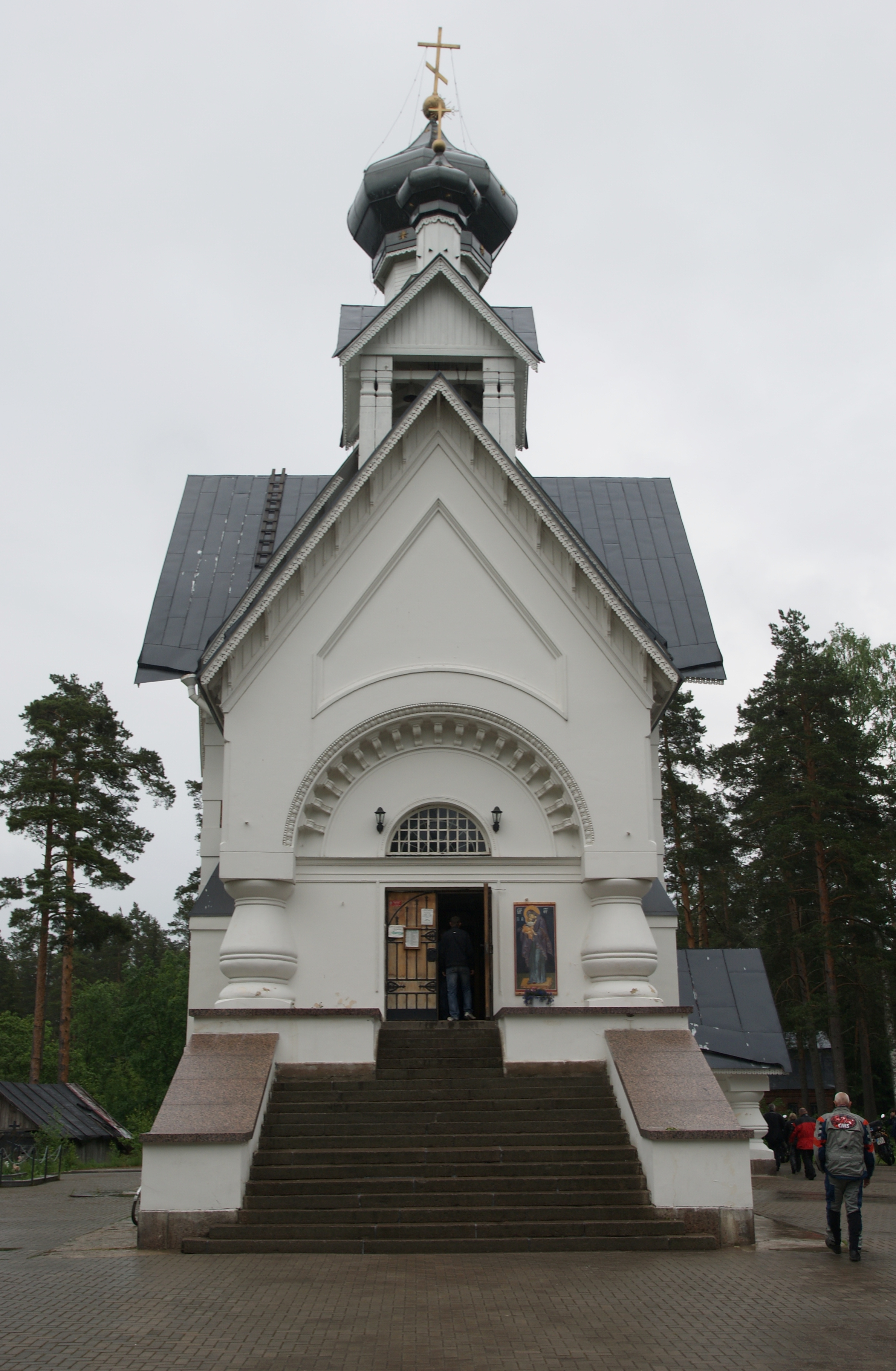 Alexander-Newski-Kirche in Sanatorium Sosnowy Bor